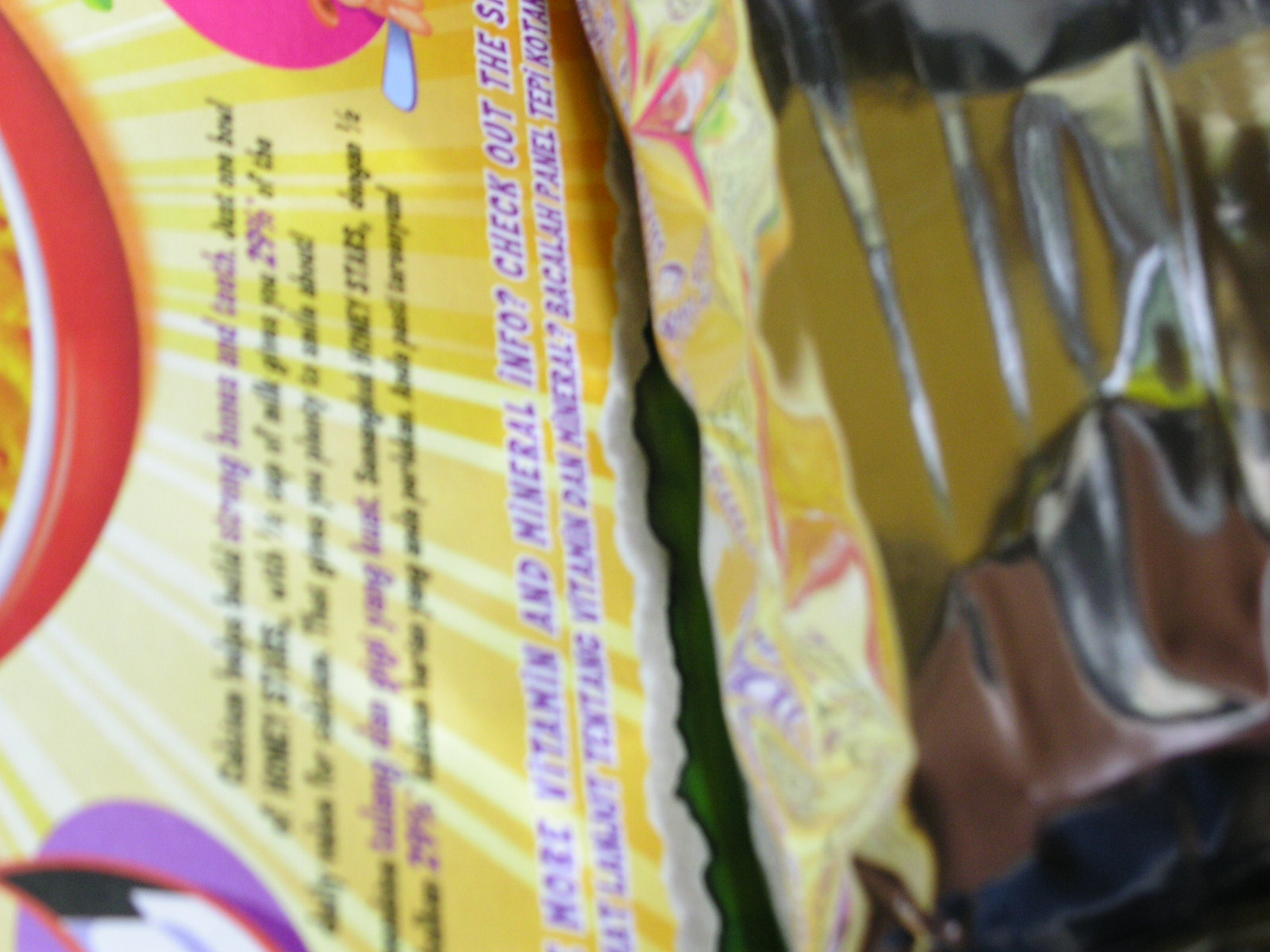 A aluminium foil food package